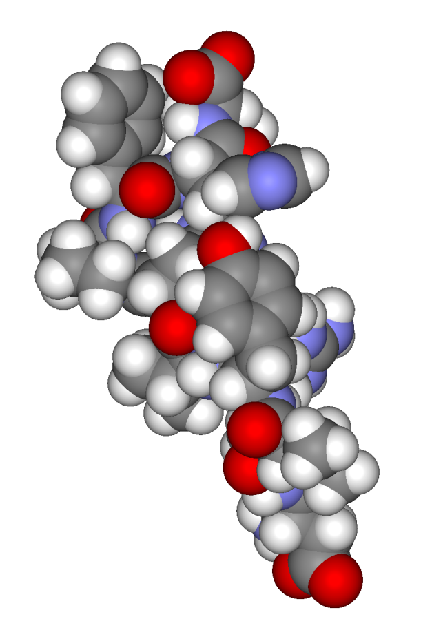 Space-filling model of angiotensin I. Created using Accelrys DS Visualizer Pro 1.6 and GIMP.